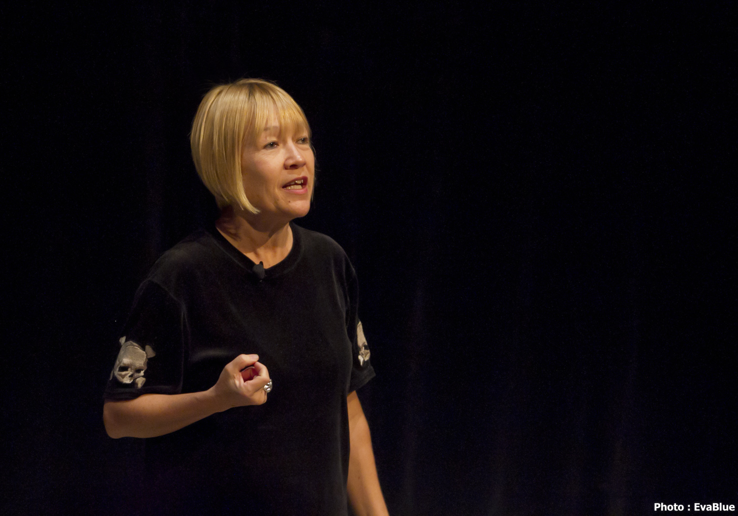 Cindy Gallop speaking